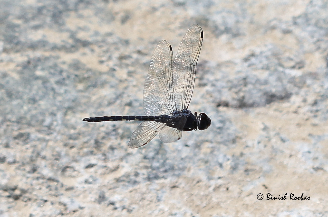 Picture